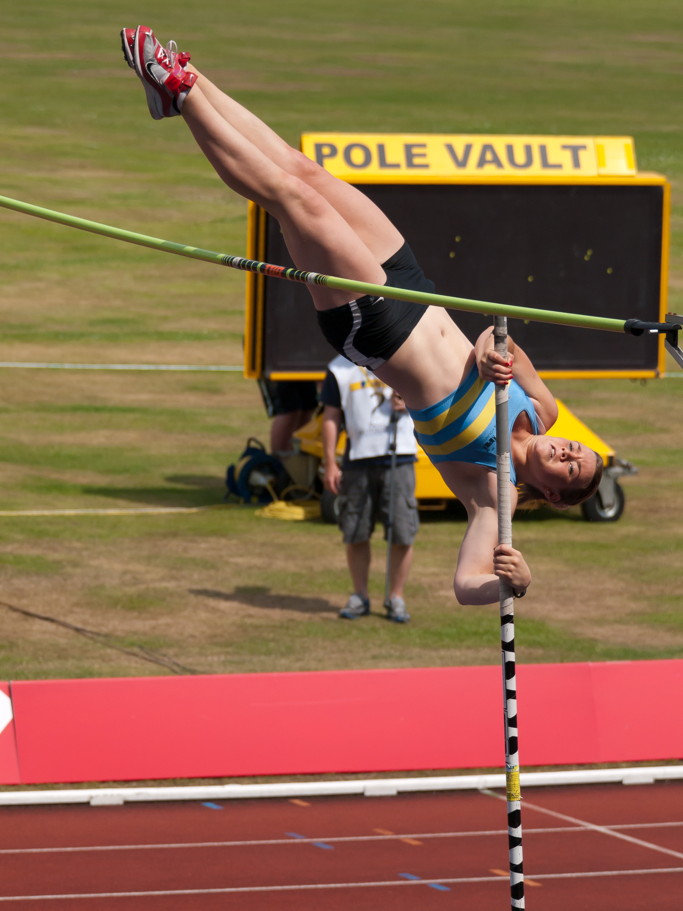 Sophie Upton in the womens' pole vault event at the Aviva 2010 UK Athletics Championships and European Trials at the Alexandra Stadium in Birmingham.